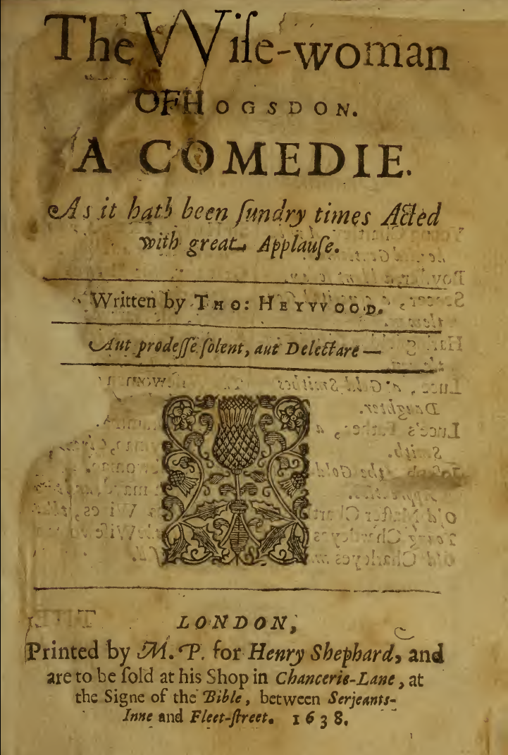 Frontispiece to Thomas Heywood's comedy The Wise Woman of Hoxton, published in 1632